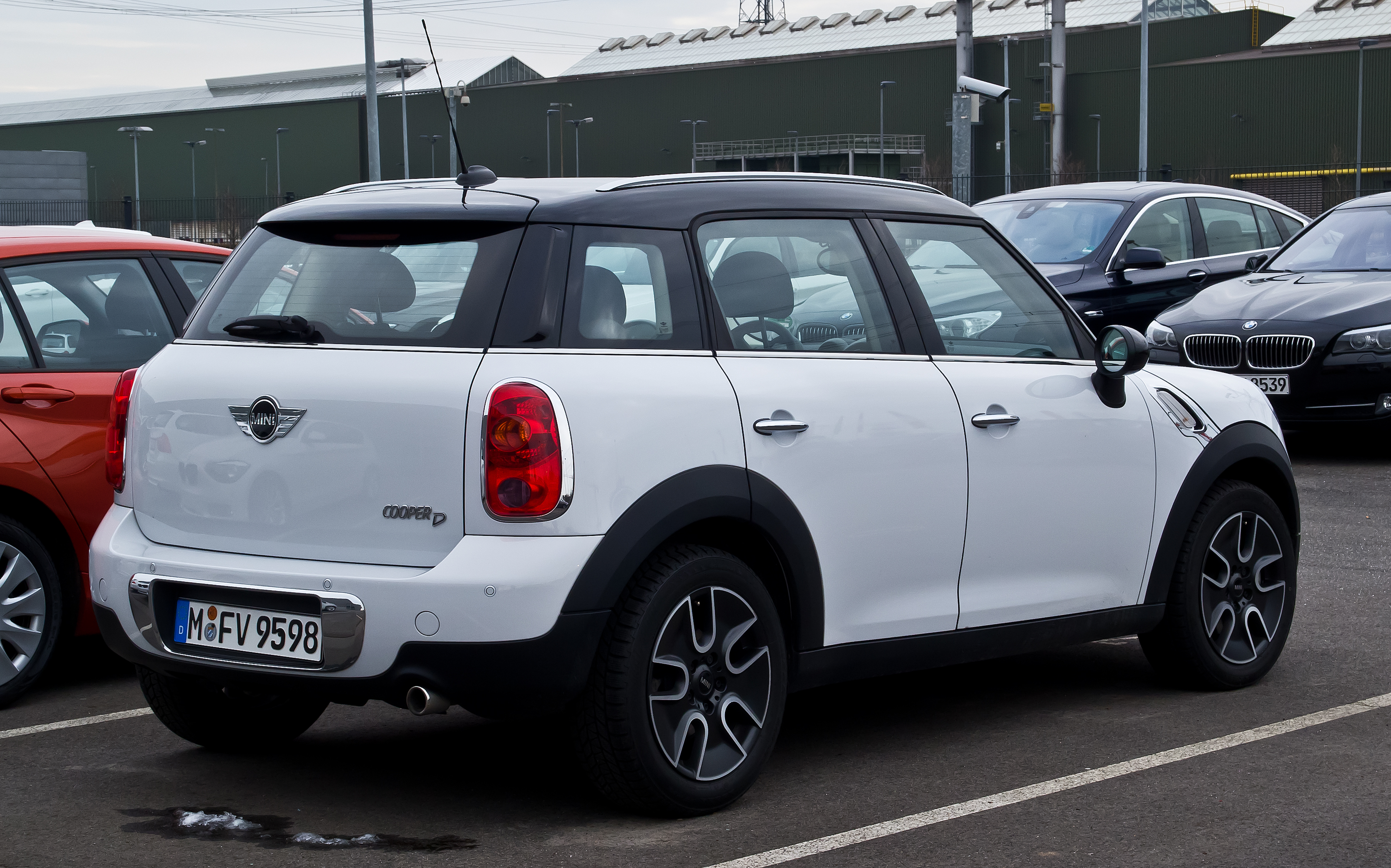 Mini Cooper D Countryman (R60)